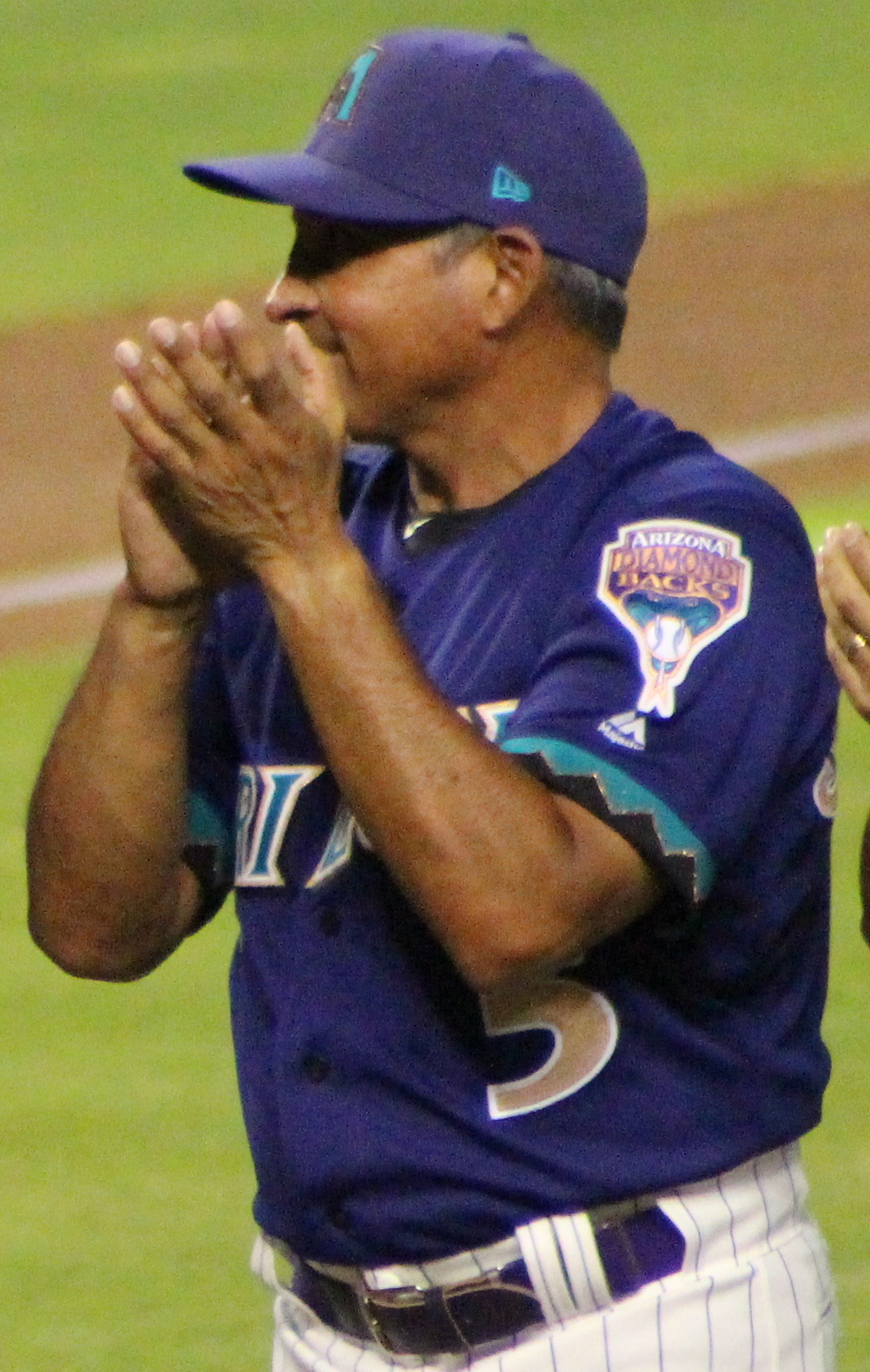 Kelly Stinnett tips his hat to the crowd at Chase Field during player introductions at the 2017 Arizona Diamondbacks Alumni Game. Ernie Young and Andy Stankiewicz are on either side of him.